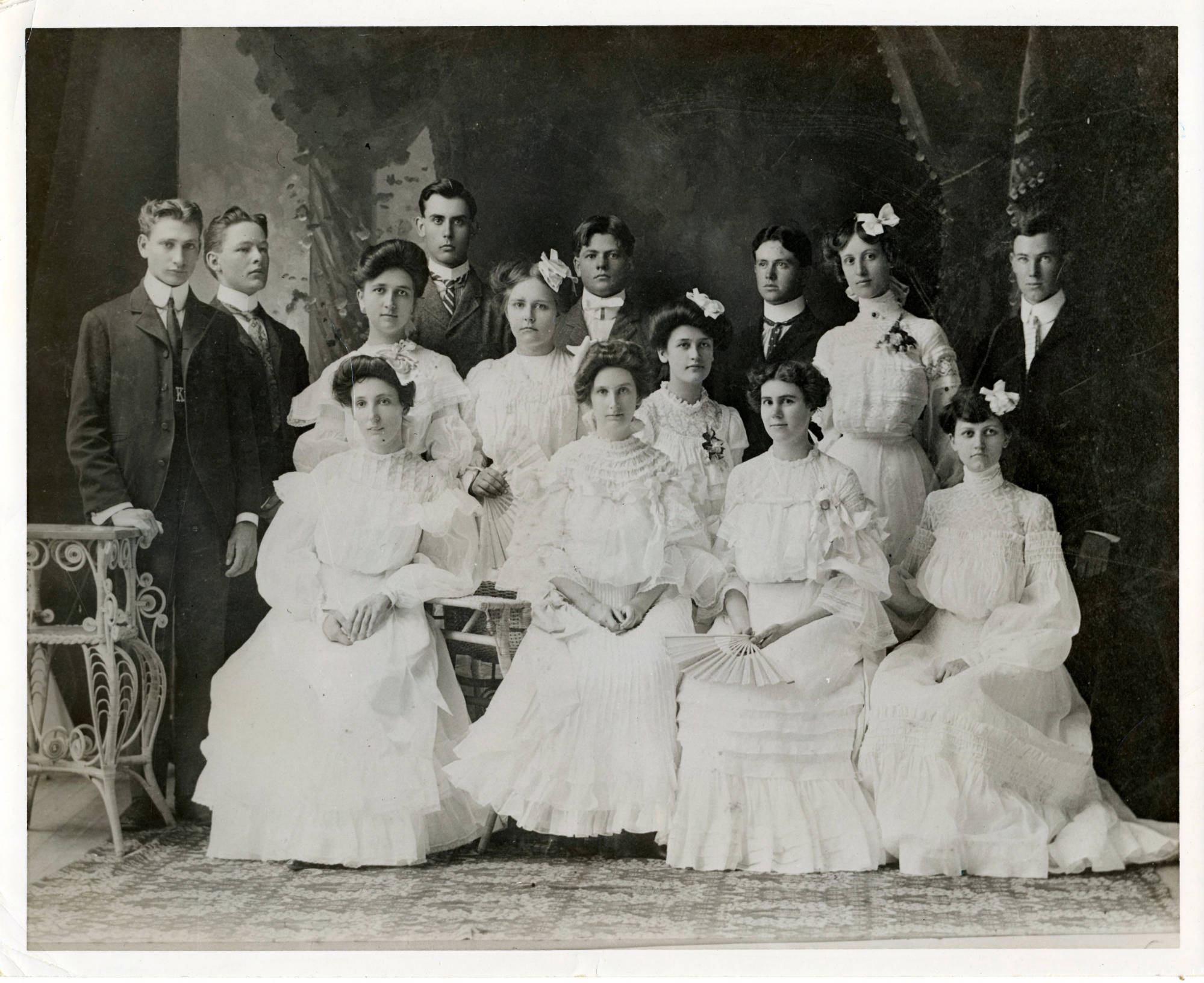 Photograph of an early graduating class from East Texas Normal College.